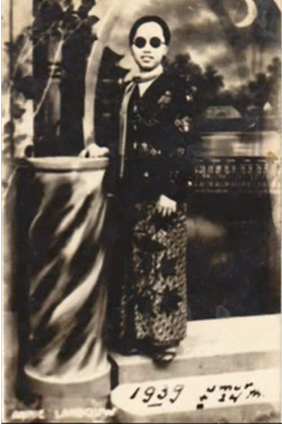 This is a promotional picture of Annie Landouw for Kartinah (1940).